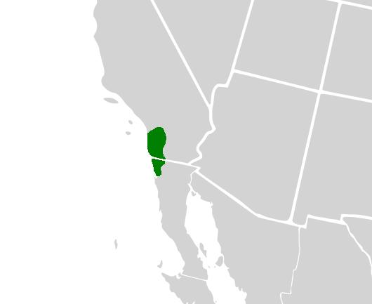 A range map showing the distribution of the Hermes Copper Lycaena hermes